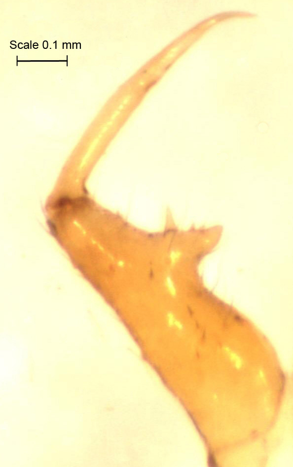 Rugathodes sexpunctatus male chelicera. Diagnostic for species identification.